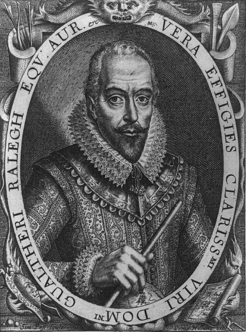 Sir Walter Raleigh, British explorer